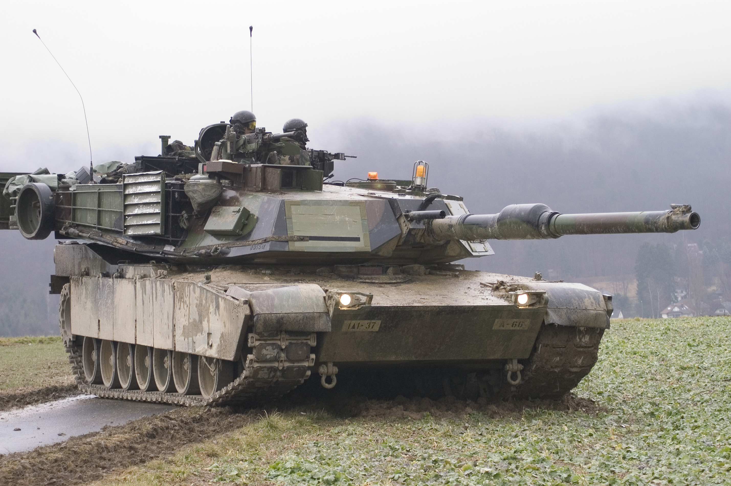 A U.S. Army Abrams M1A1 tank takes a defensive position at a staging area during Ready Crucible in Germany. Over 50 tanks from the 1st Armor Division, Humvees, and support vehicles drove through more than 60 kilometers of German roadway and farmlands making Ready Crucible the largest movement of American armor in Germany since the 1980's.